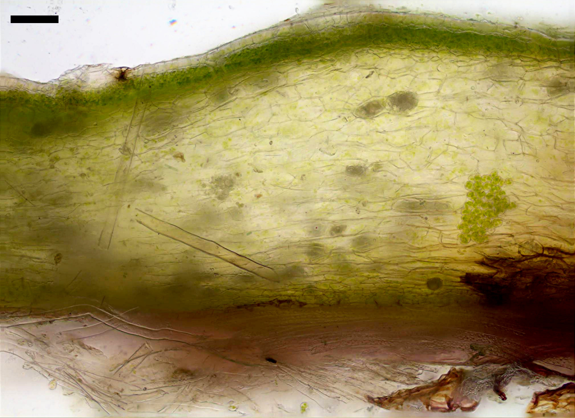 Cross section through a liverwort thallus. Scale bar: 100μm